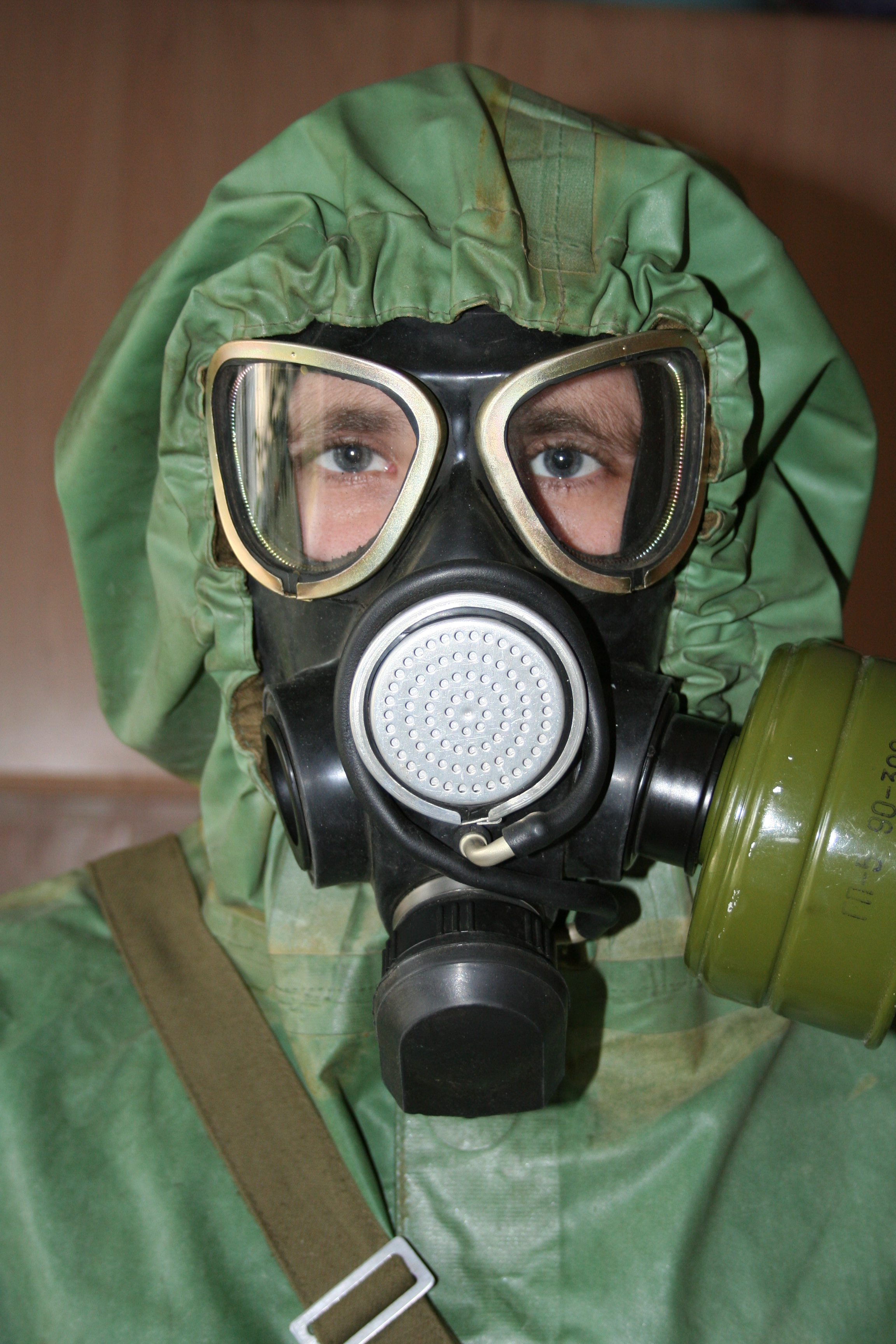 Russian gas mask ПМК-2 (ГП-7ВМт)